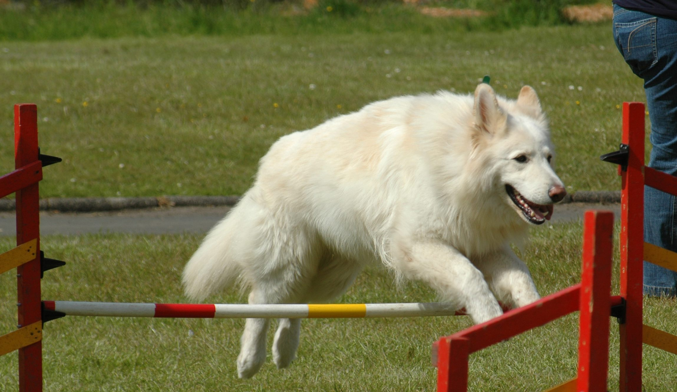 Photographer - Alan Hughes